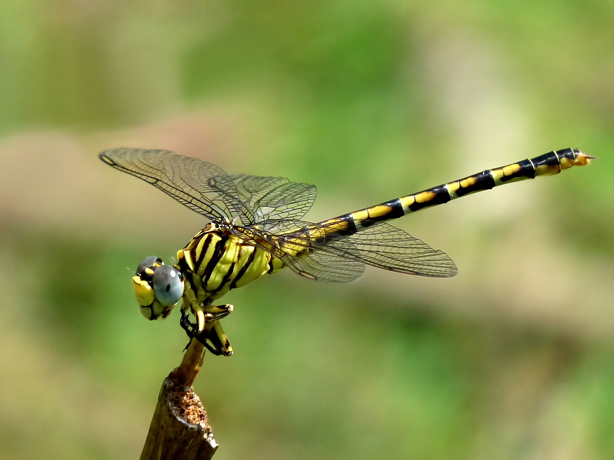 Paragomphus is a genus of dragonfly in family Gomphidae. They are commonly known as Hooktails. Lined Hooktail (Paragomphus lineatus) is a yellow dragonfly with black and brown markings, and bluish grey eyes. Yellow with a brown “X” shaped and an oblique mark on the back of the thorax. Sides of the thorax have three parallel brown stripes. Eighth and ninth segments have lateral oar like expansions. Commonly found near streams, rivers, ponds and lakes. Taken at Kadavoor, Kerala, India